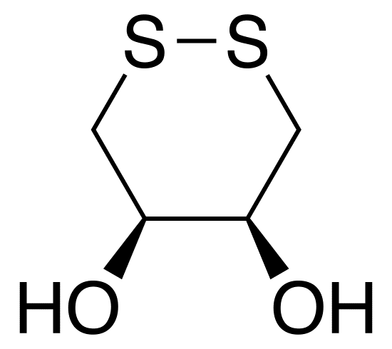 Skeletal structure of the oxidized (disulfide) form of dithioerythritol.